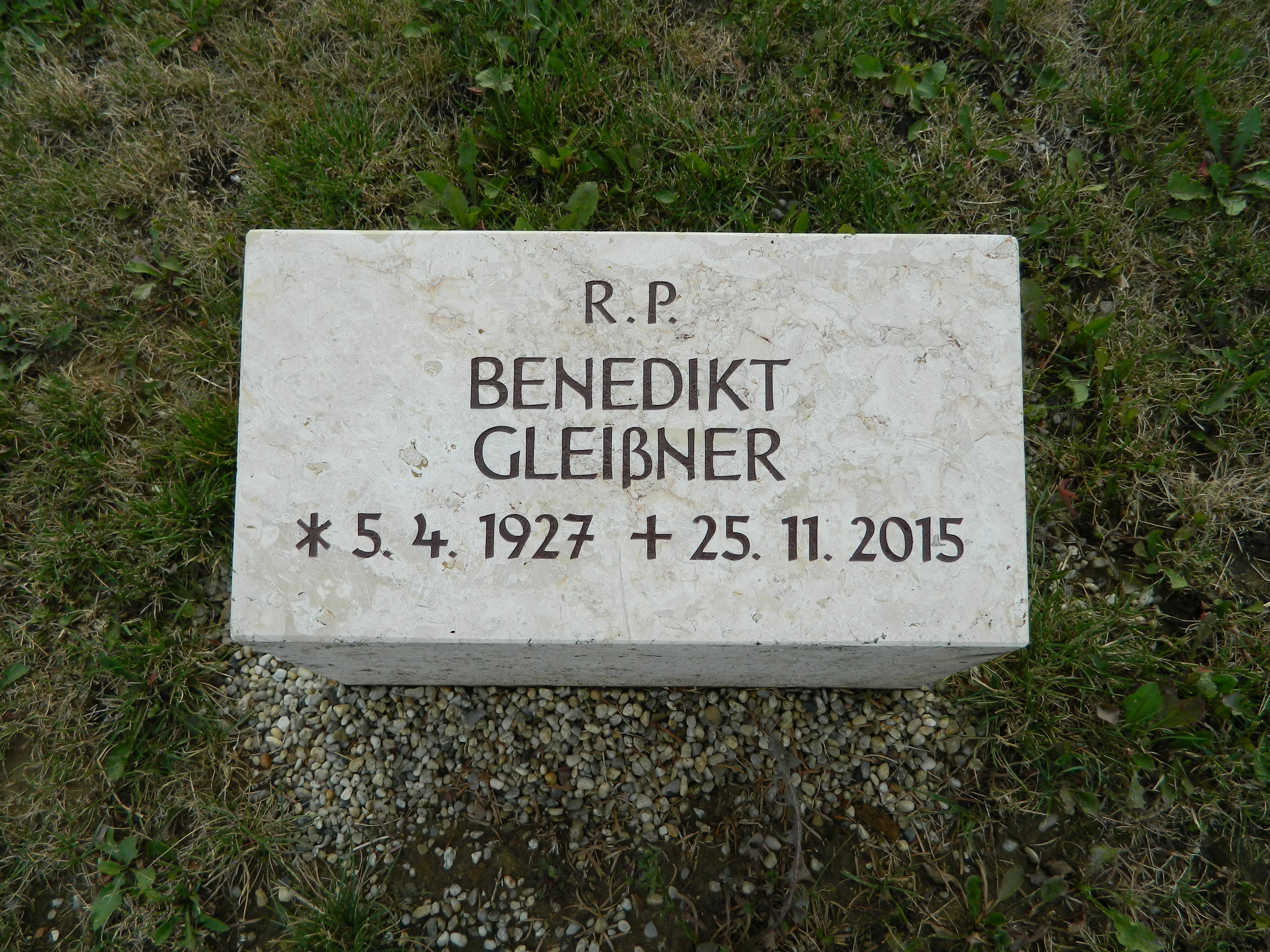 Grave P. Benedikt Gleißner OSB, Rohr